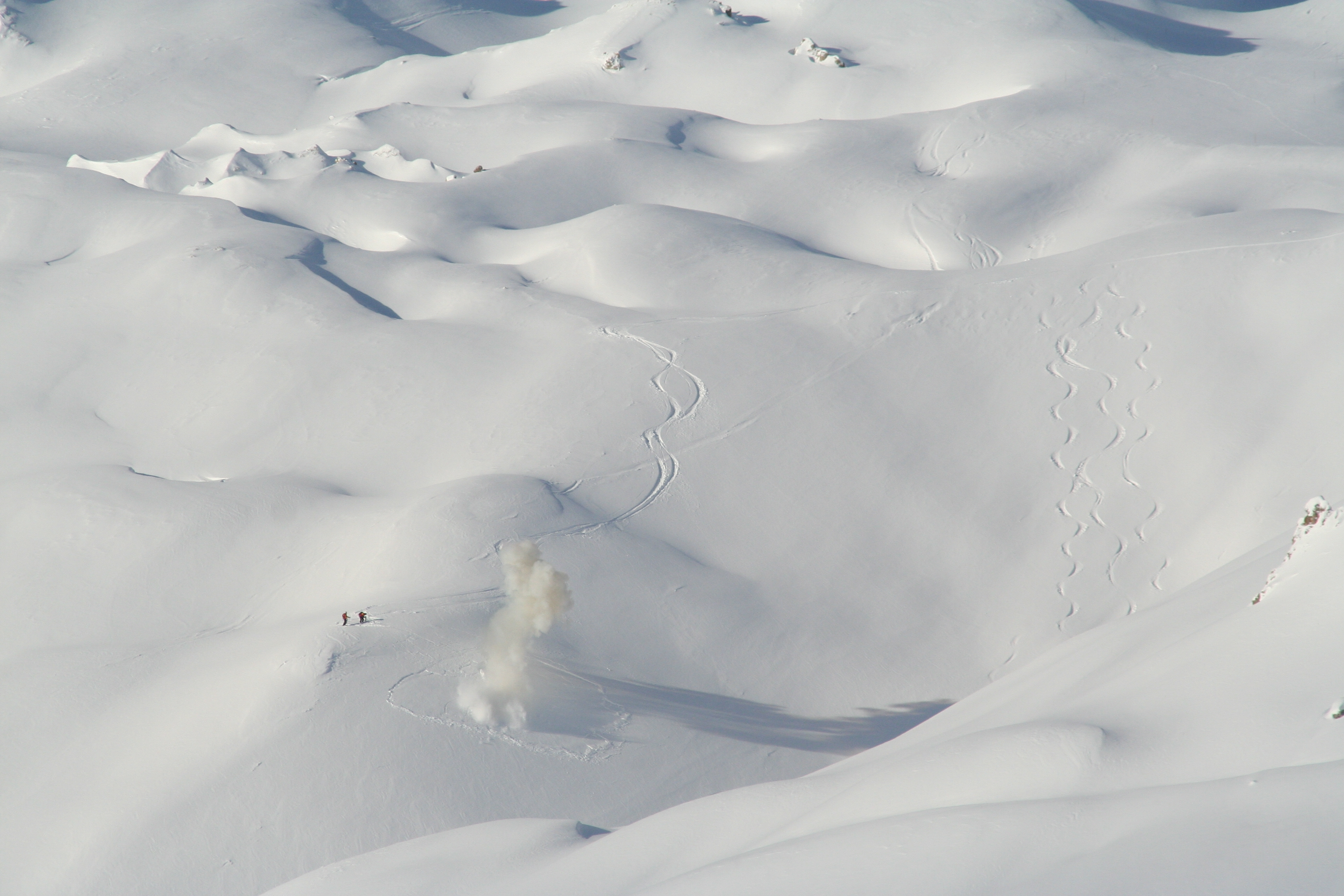 Location: French Alps, lower slopes of [Tignes] (3600m)